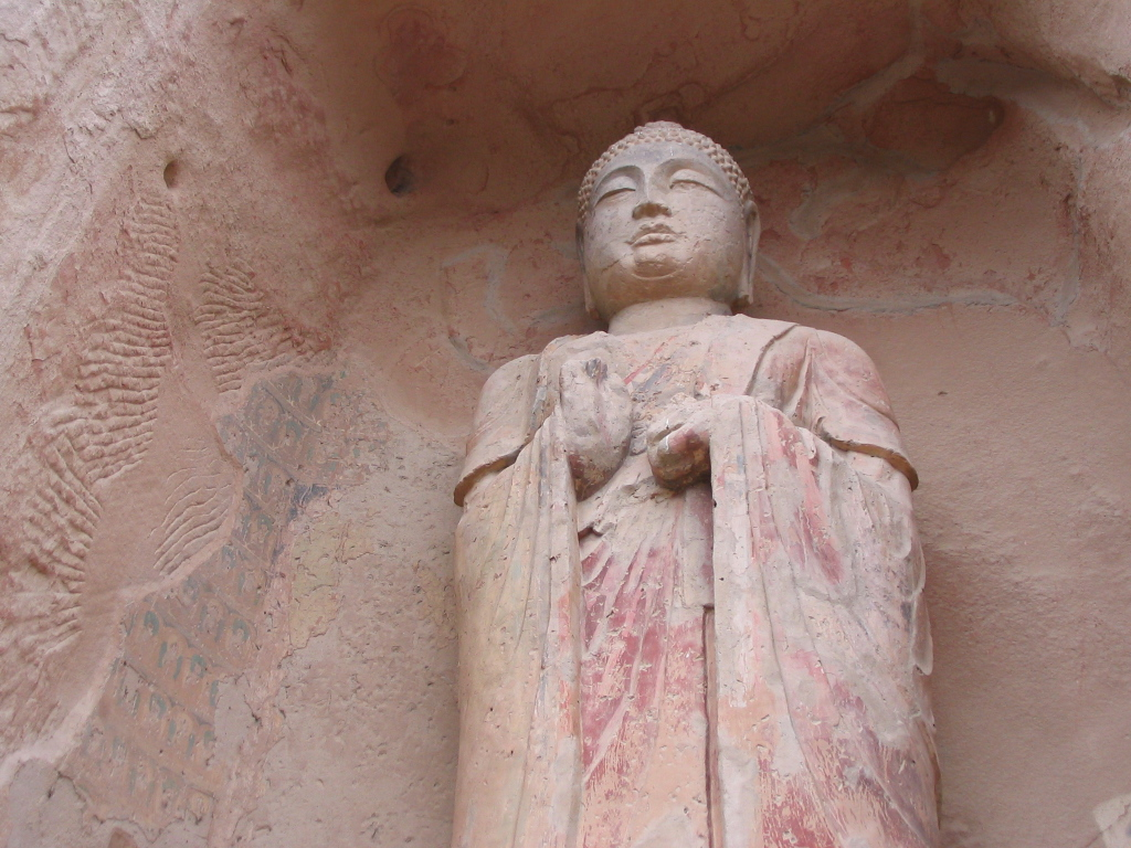 Northern Wei dynasty (368-534) and were put under periodic reconstruction during later dynasties until the Tang dynasty (618-906).